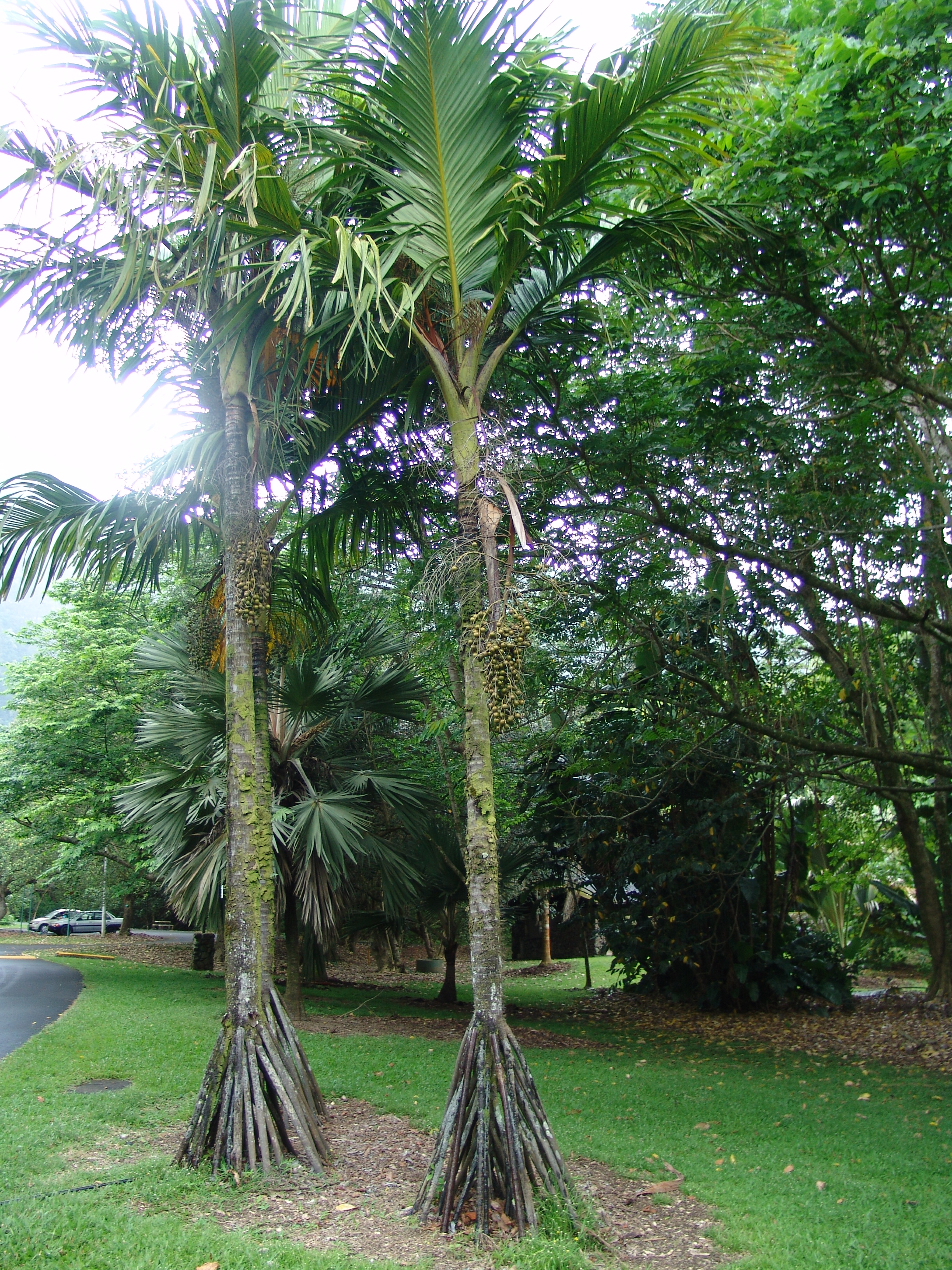 Verschaffeltia splendida, image taken in Ho'omaluhia Botanical Garden Oahu Hawaii